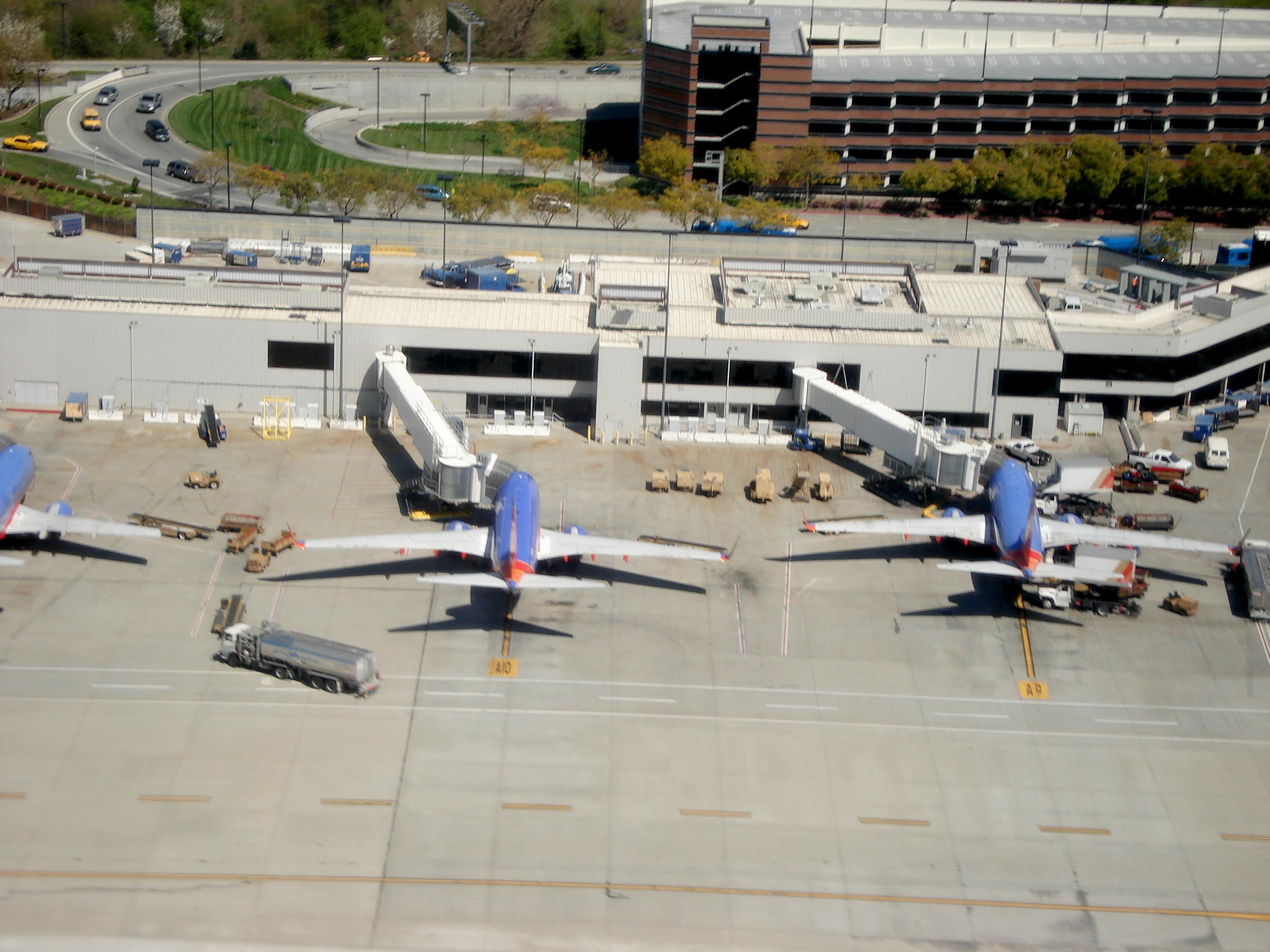 Southwest Airlines aircraft at San Jose International Airport Terminal A in 2009. Airport Way and parking structure can be seen in the background.